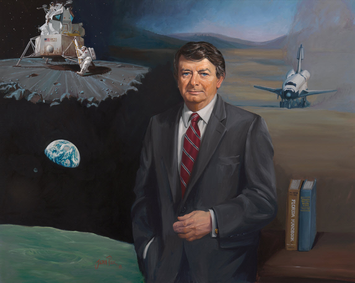 former congressman Don Fuqua of Florida.